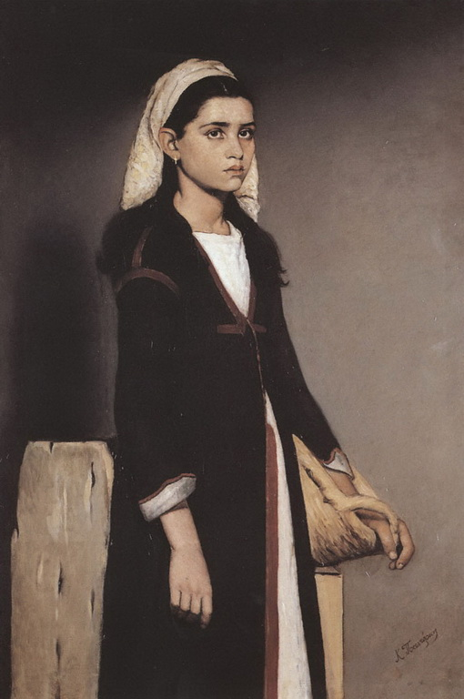 Peasant girl with basket (1885)